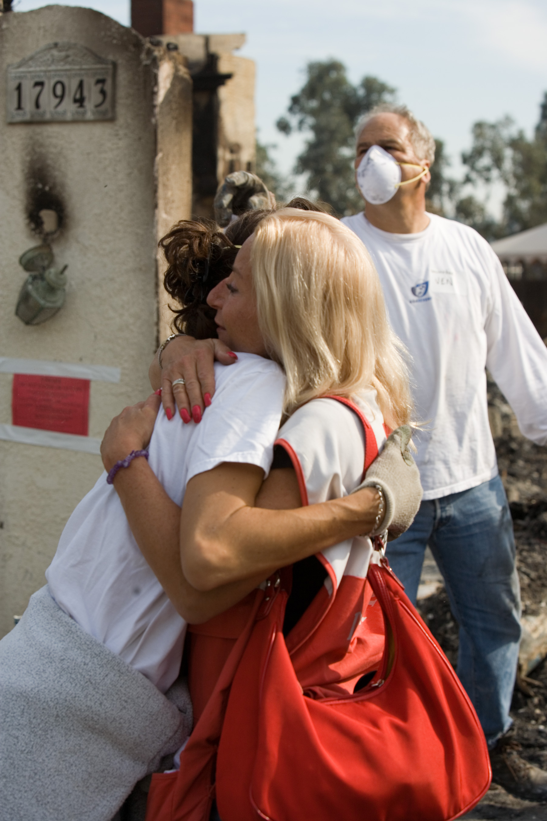 Rancho Bernardo, CA, October 28, 2007 -- A Red Cross volunteer comforts the sister of fire victim, while friends and volunteers sift through the residents home searching for valuables. Andrea Booher/FEMA